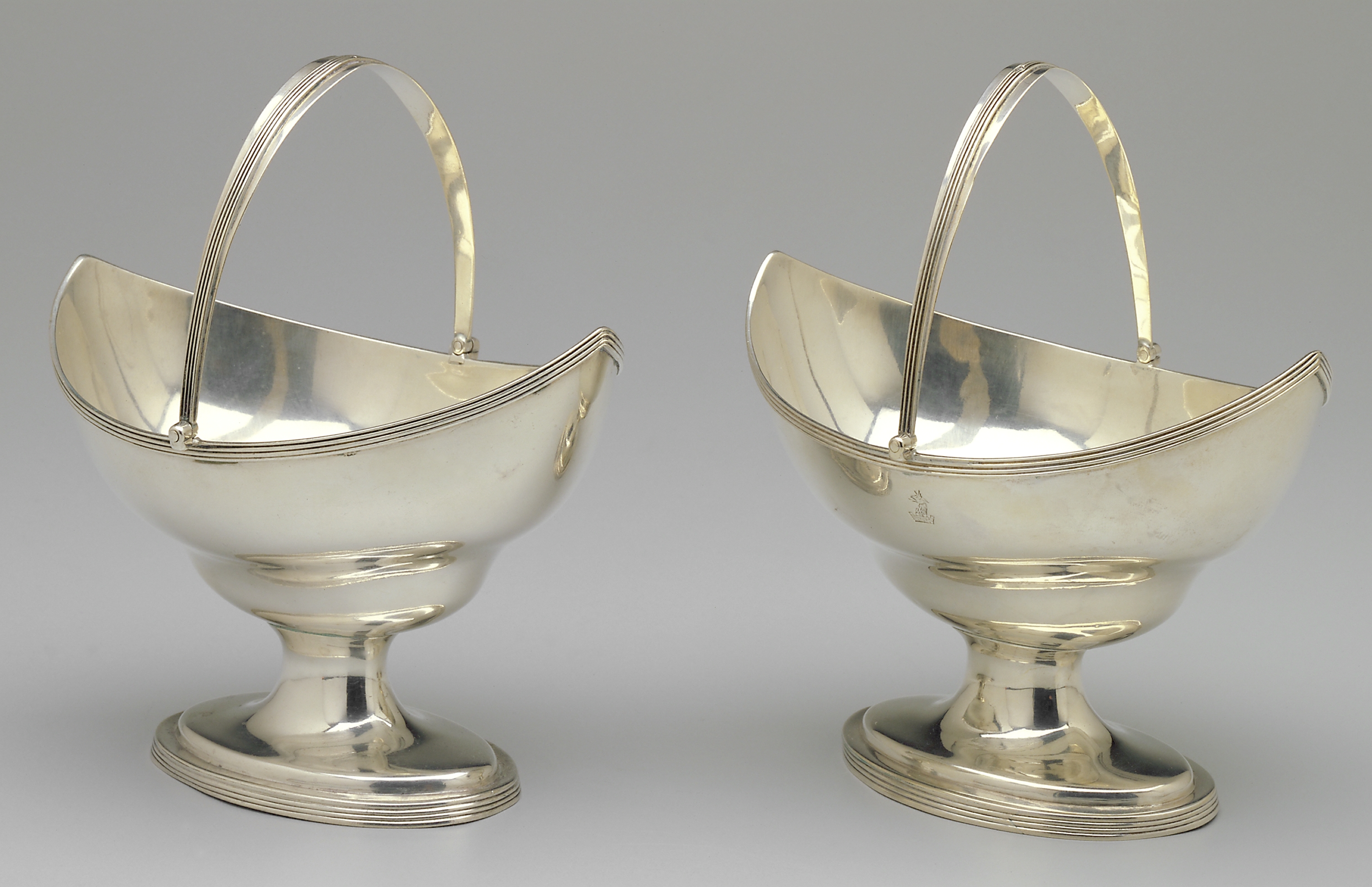 Peter Bateman, British, 1740-1825; Ann Bateman, British, 1748-1813; Sugar baskets; 1794; Silver; 4 3/4 x 4 5/8 x 6 1/4 in. (12.07 x 11.75 x 15.88 cm) each; Minneapolis Institute of Art; Gift of Leo A. and Doris Hodroff 97.153.73.1,.2